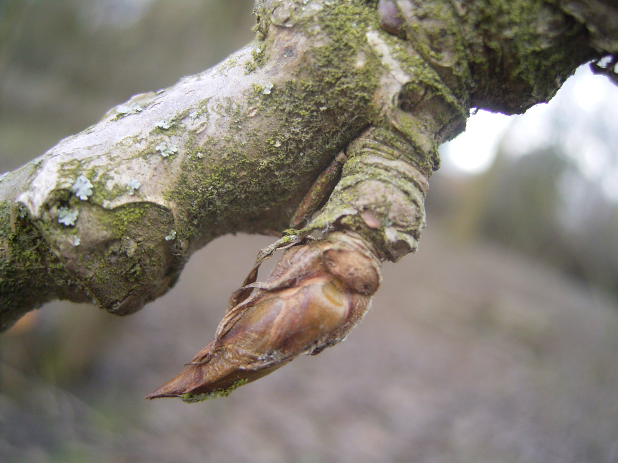 Deze foto toont een bladknop van populus lasiocarpa. Ik nam de foto op 2 maart 2006 in het arboretum heempark in Delft. This pic shows a leafbud of populus lasiocarpa.